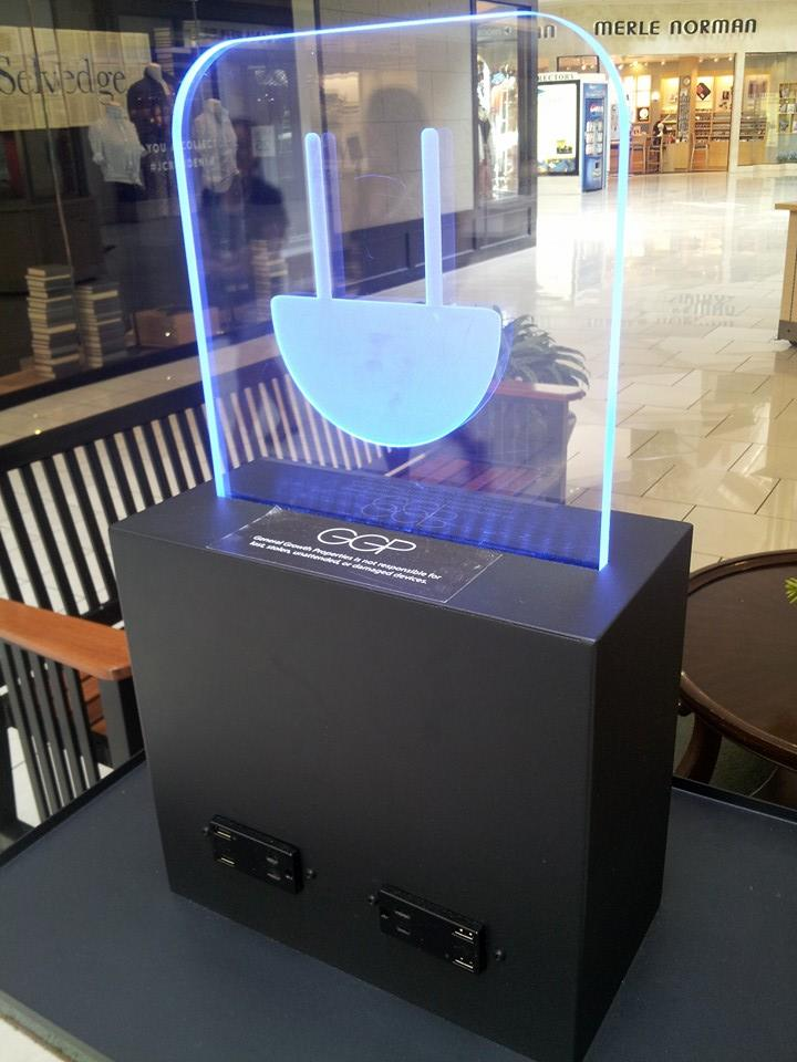 One of several smartphone charging stations at Boise Towne Square courtesy of General Growth Properties.